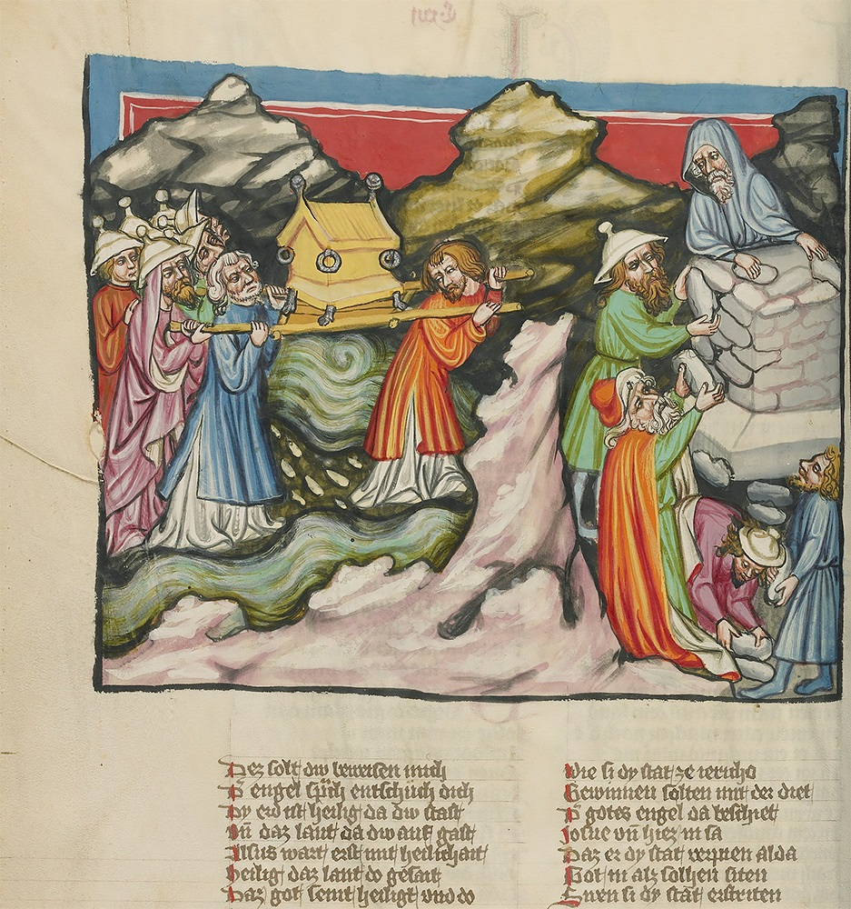 Israelites Crossing the Jordan Carrying the Ark of the Covenant